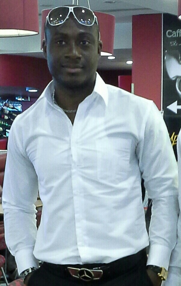 Yao Simon Koffi posing for a picture near Al Urooba Club's stadium in Fujairah. 28 March 2012 Al Urooba Club Stadium Photographer email id